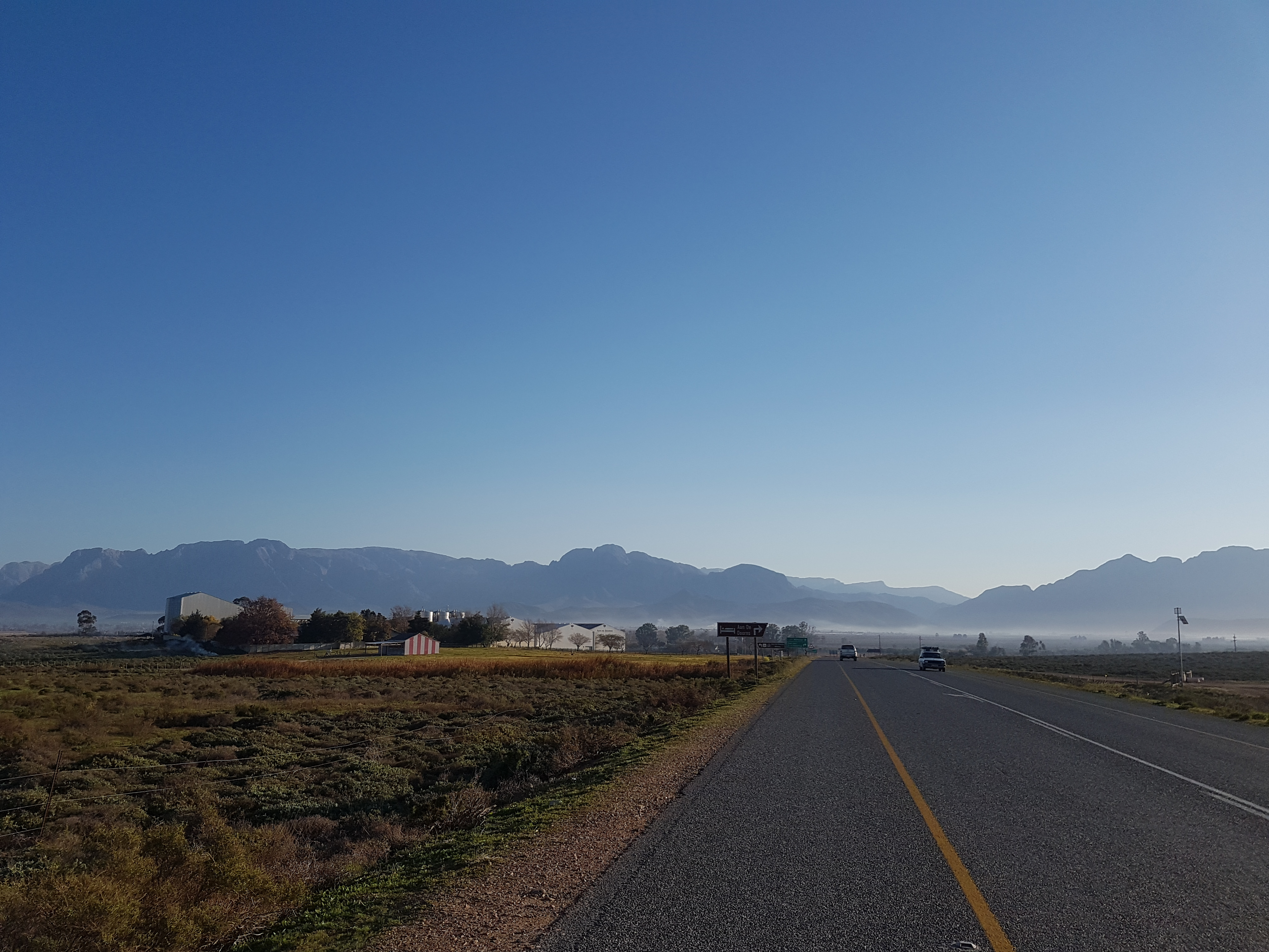 Aan de Doorns Cellar, on the R43 on the way to Worcester